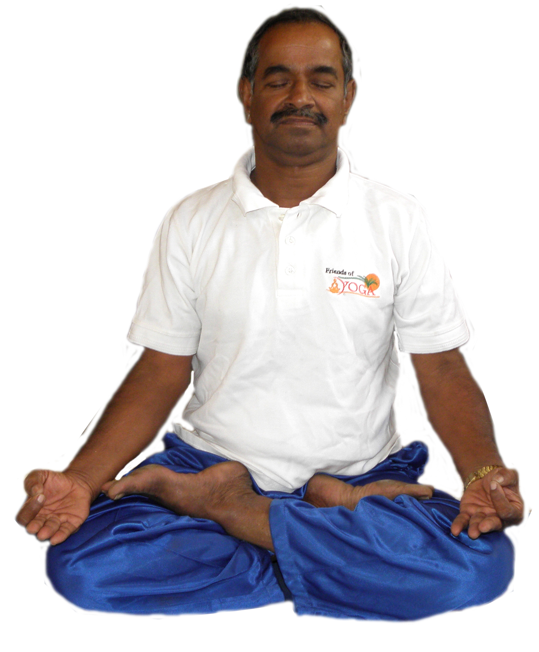 Lotus Pose